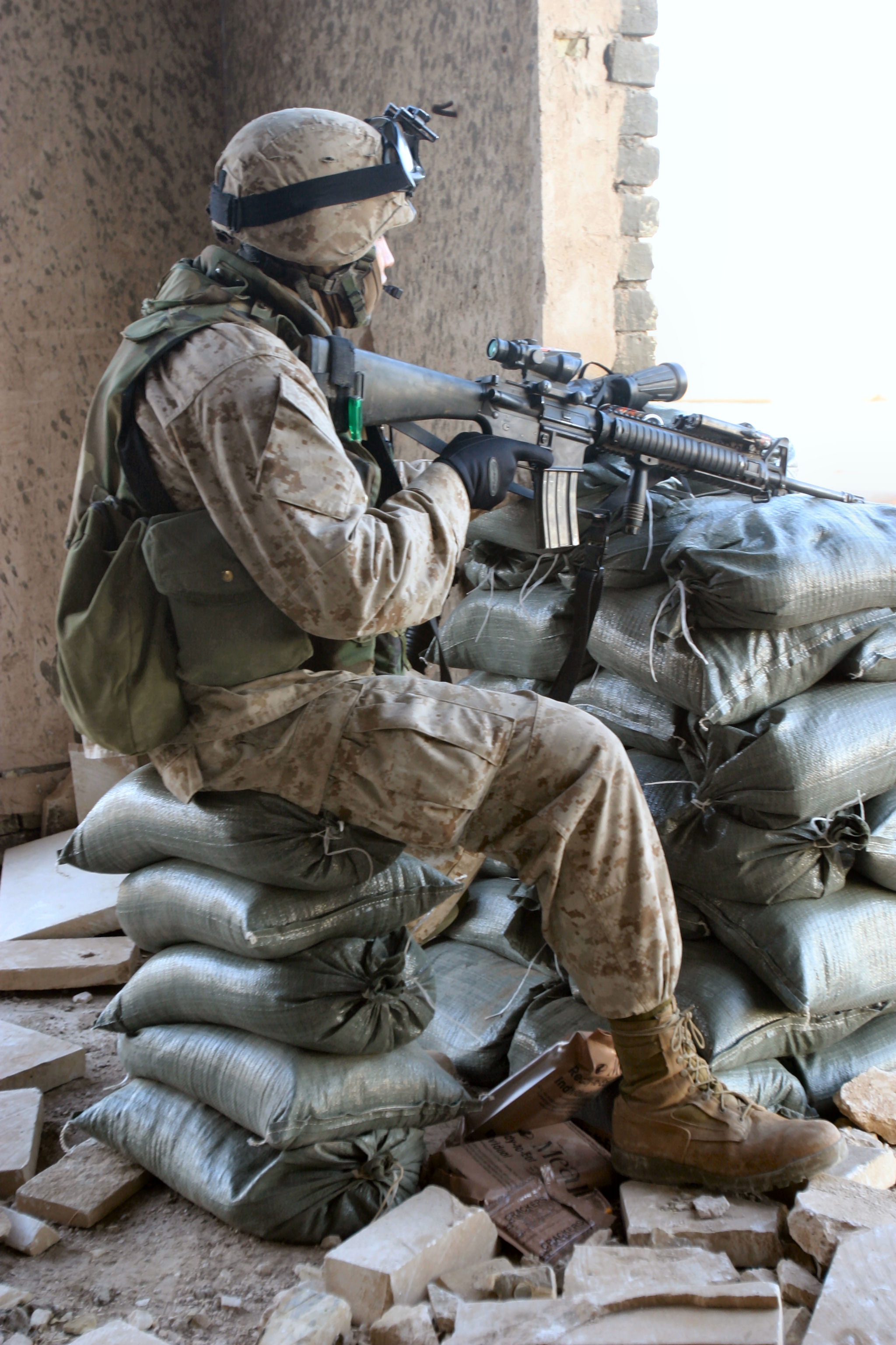 AR RAMADI, Iraq – Cpl. Vincent Licari from Fox Company, 2nd Battalion, 5th Marines (Fox 2/5) provides security for other Marines from Fox 2/5 during a vehicle check point at Ar Ramadi, Iraq, Feb. 22. 1st Marine Division, in support of Operation Iraqi Freedom, is engaged in Security and Stabilization Operations (SASO) in the Al Anbar Province of Iraq.